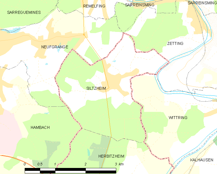 Map of French municipality